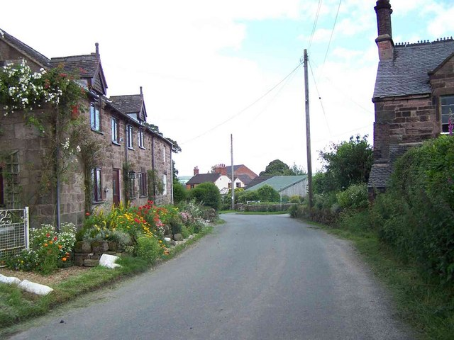 Cottages, Consall